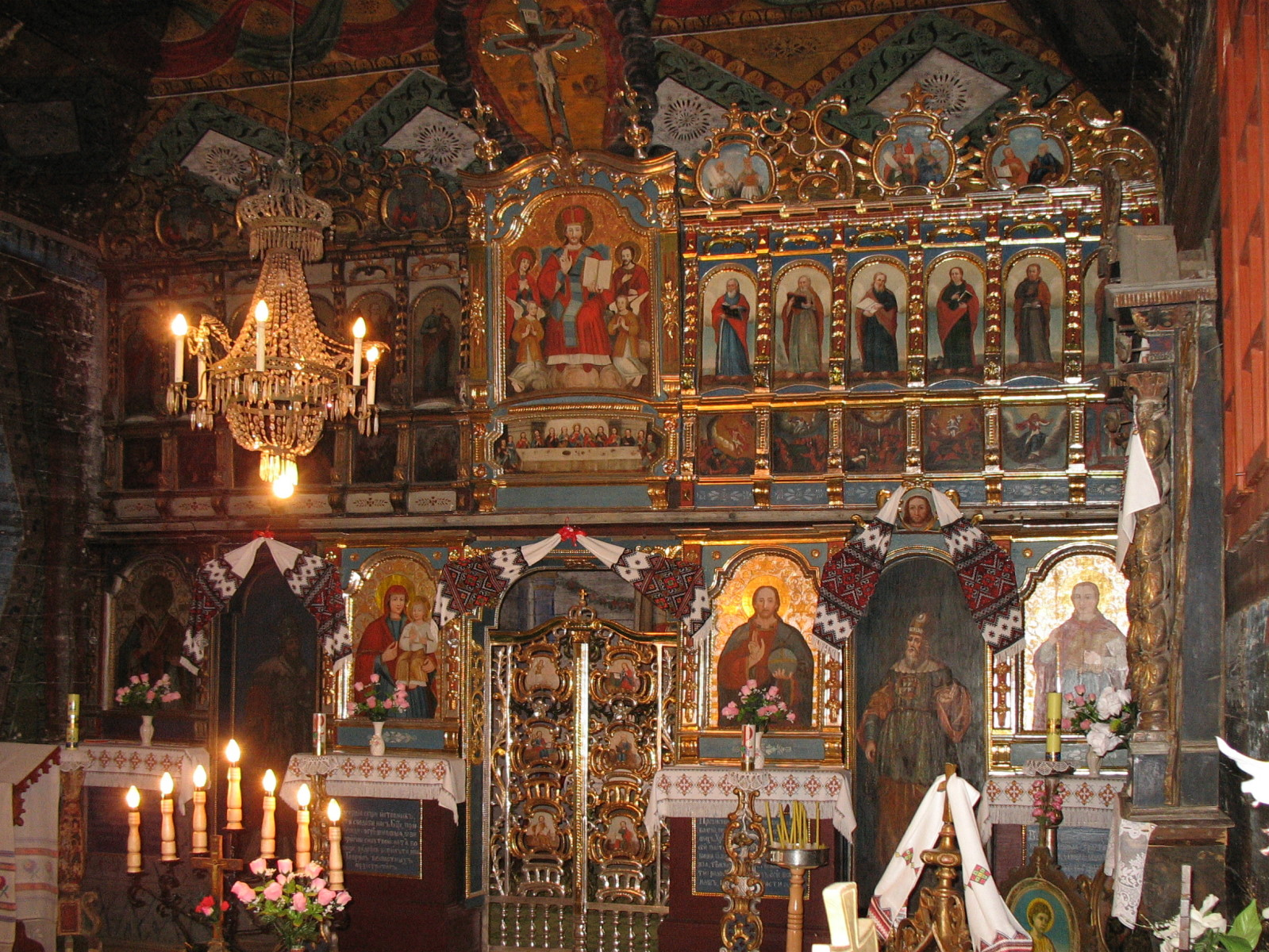 Śnietnica (Poland), Greek Catholic church, iconostasis